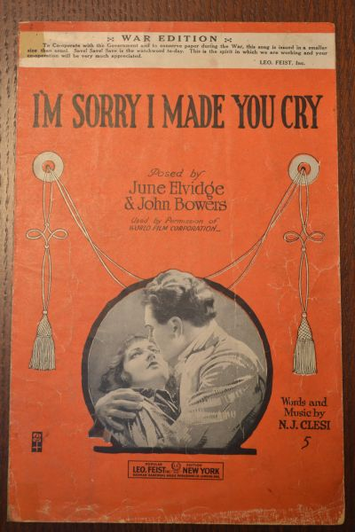 Sheet music cover